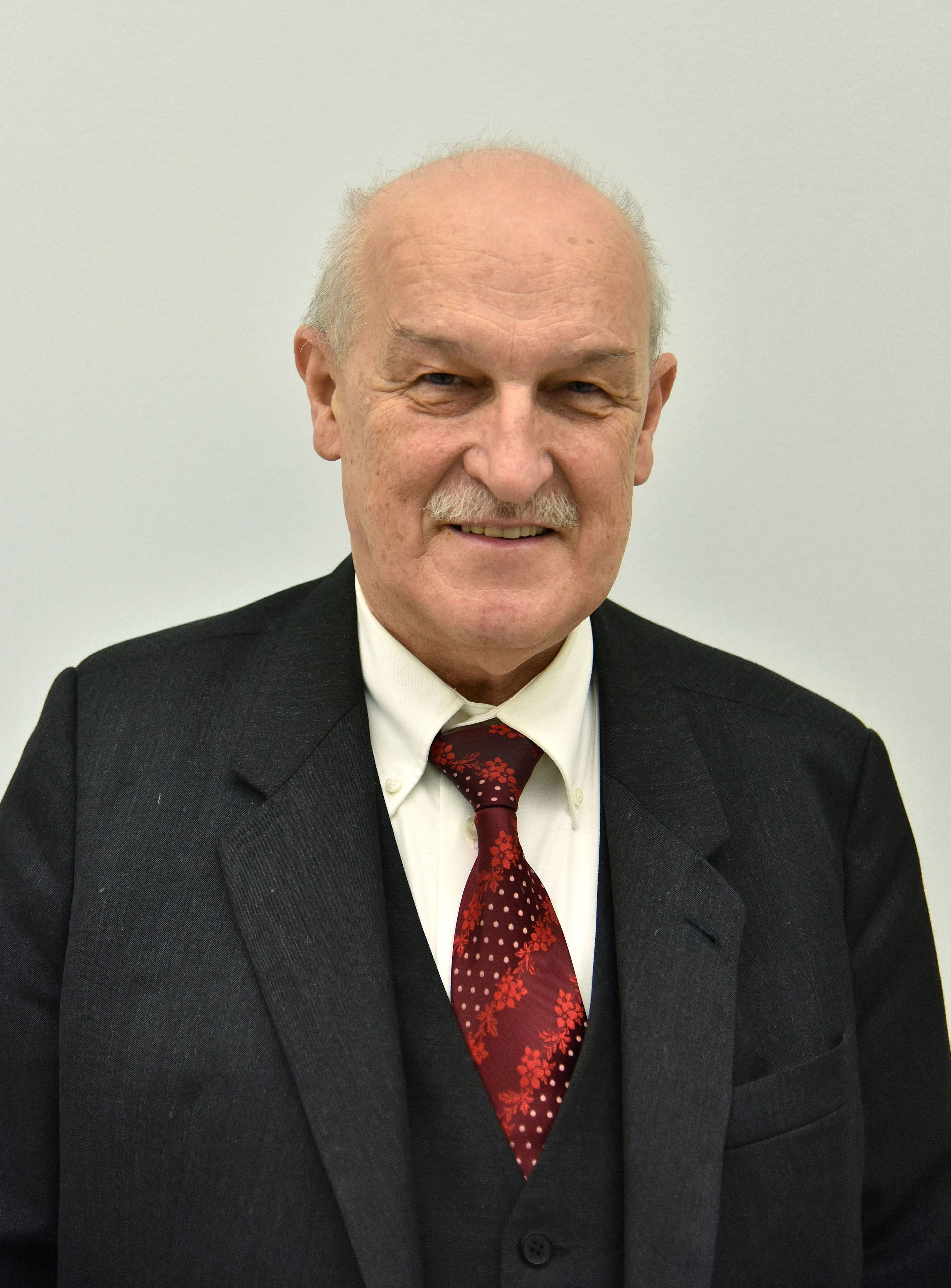 Jerzy Kropiwnicki in the Sejm